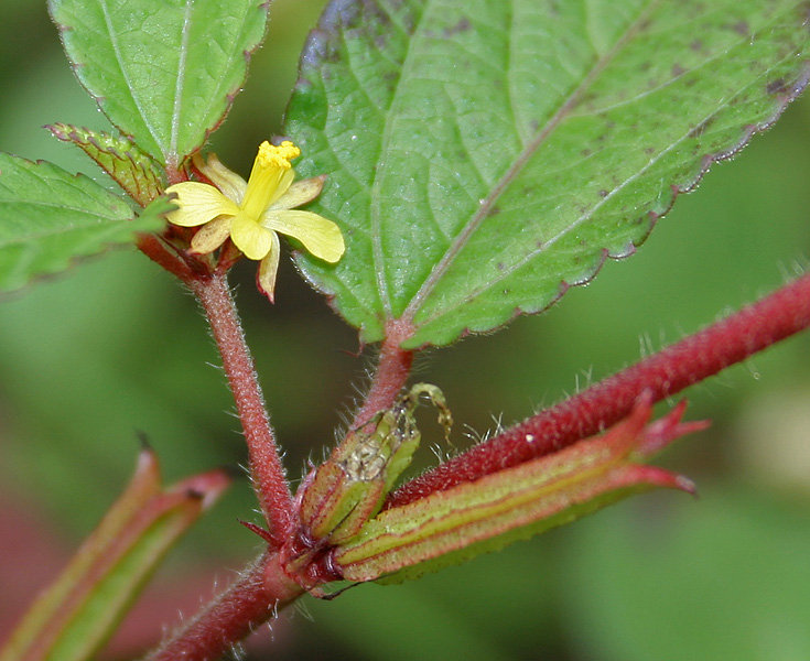 Description corrected as Corchorus aestuans in Hyderabad , India.